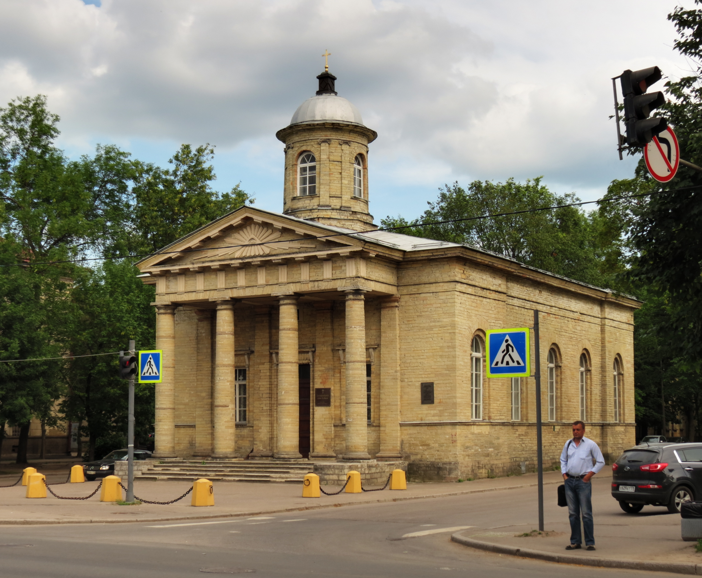 Saint Nicholas Church, Gatchina, Russia